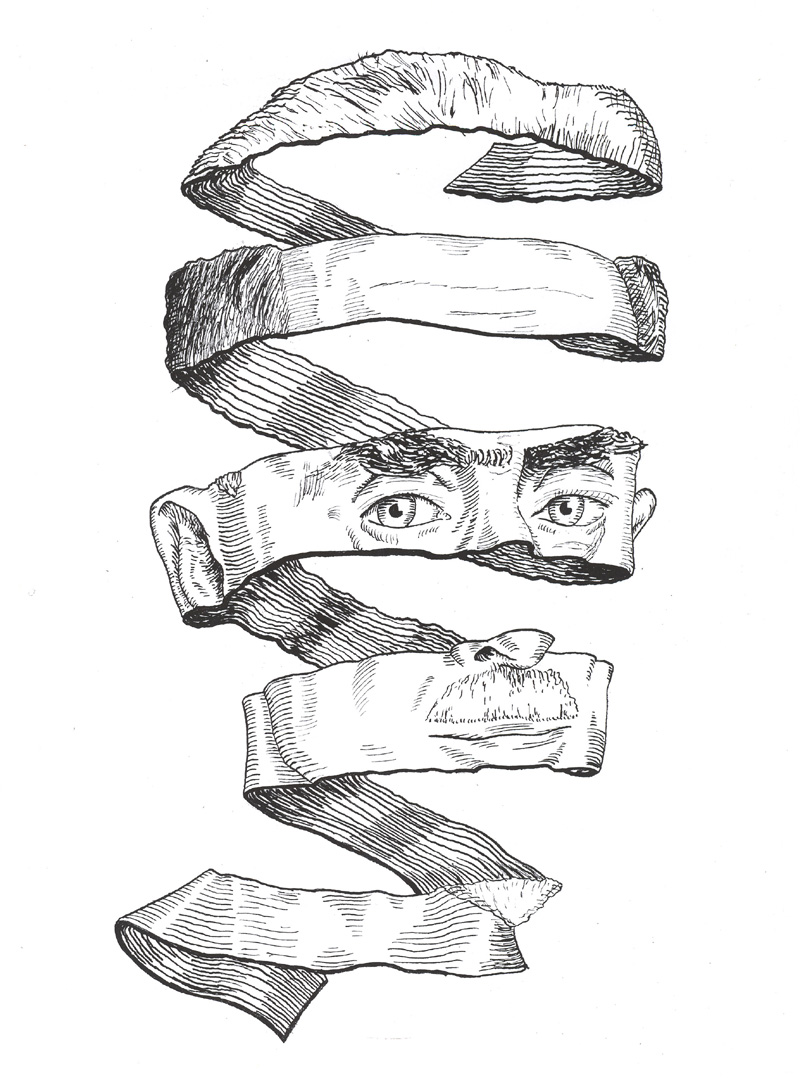 A picture drawn after the portrait of M. C. Escher, created by one of his admirer, in the own style of the master.